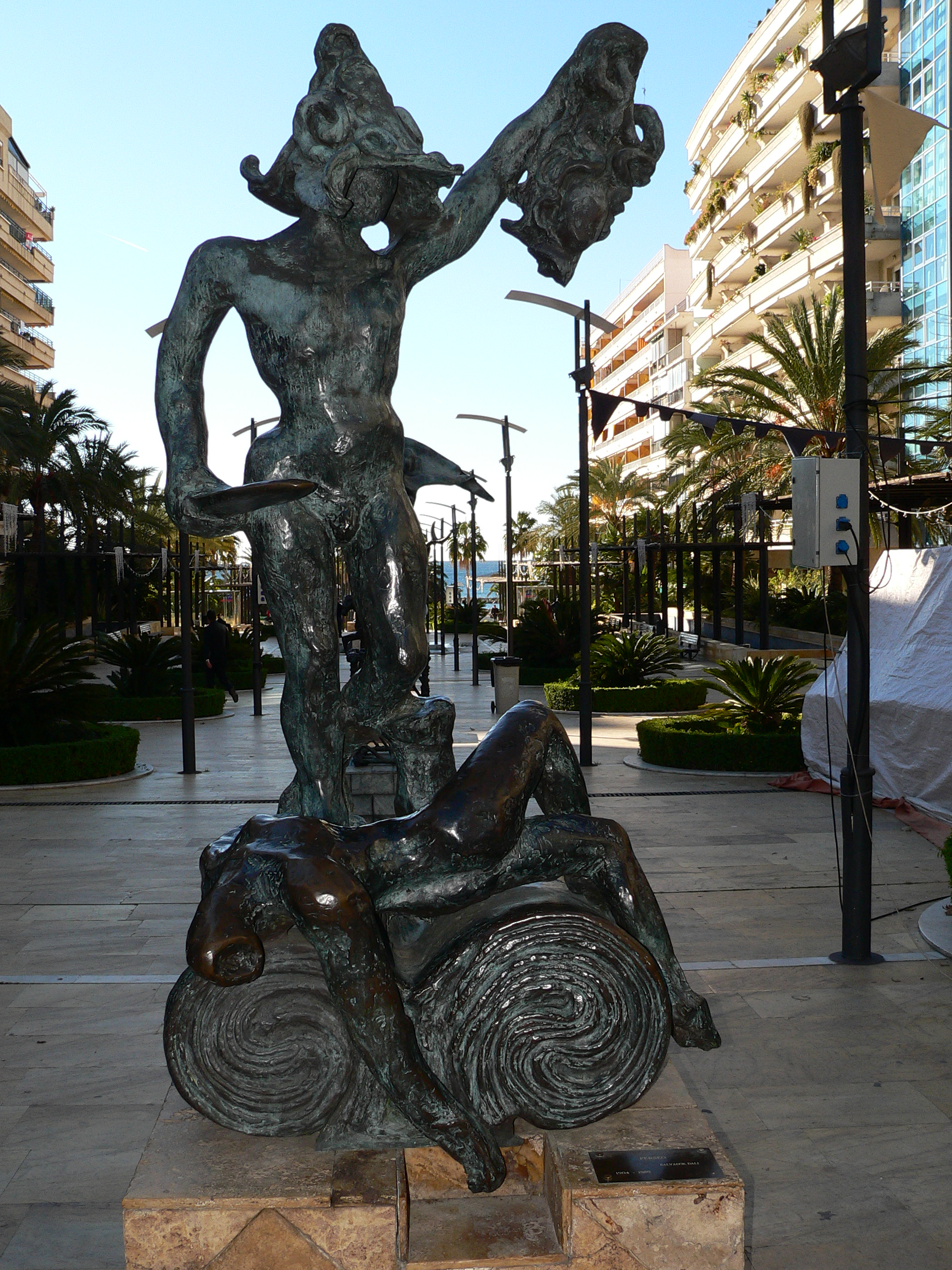 Description: Perseo Subject: Sculpture Artist : Salvador Dalí City : Marbella Country : Spain Photographer: © Manuel González Olaechea y Franco Shot date : January, 3rd, 2006